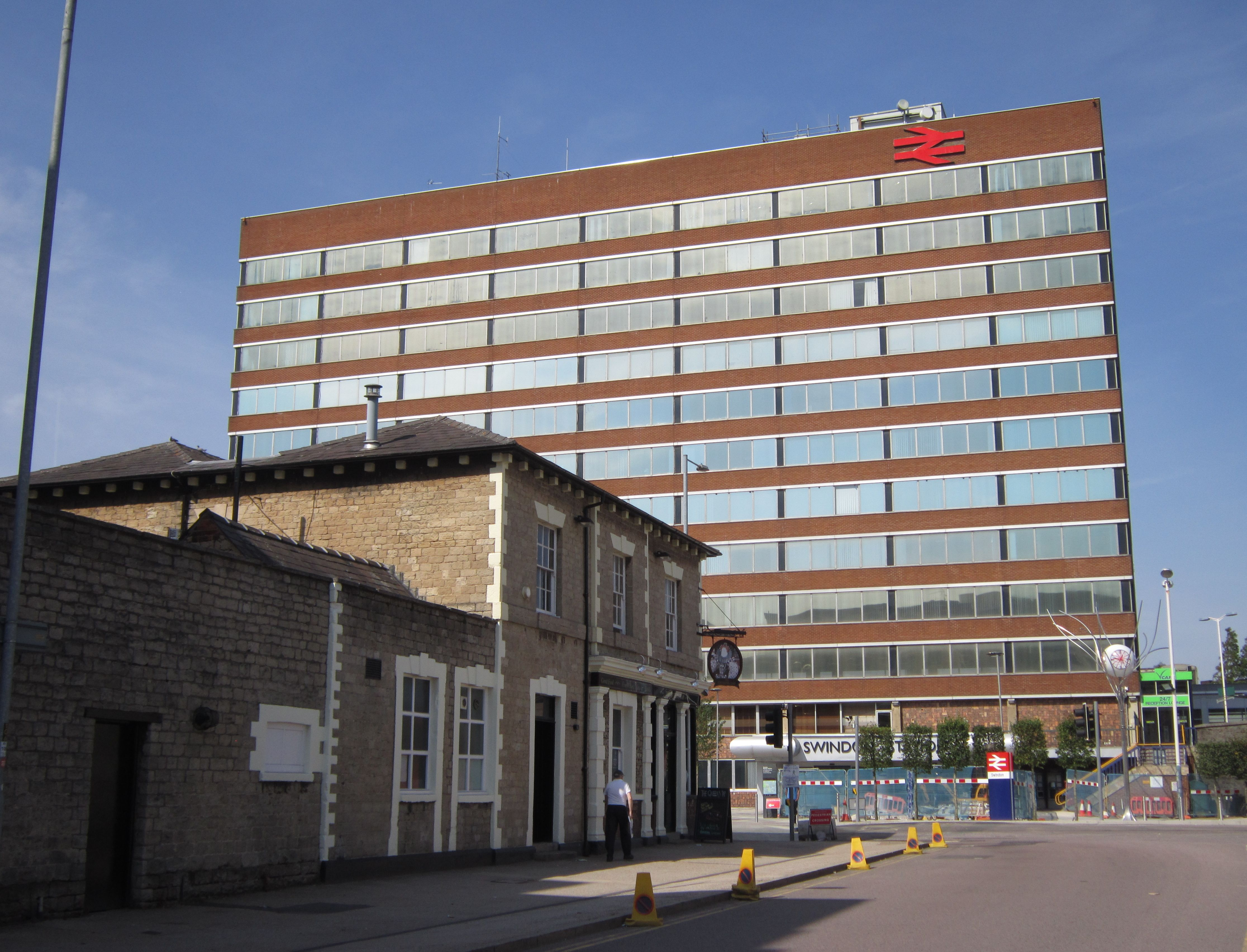 Long shot of Swindon railway station